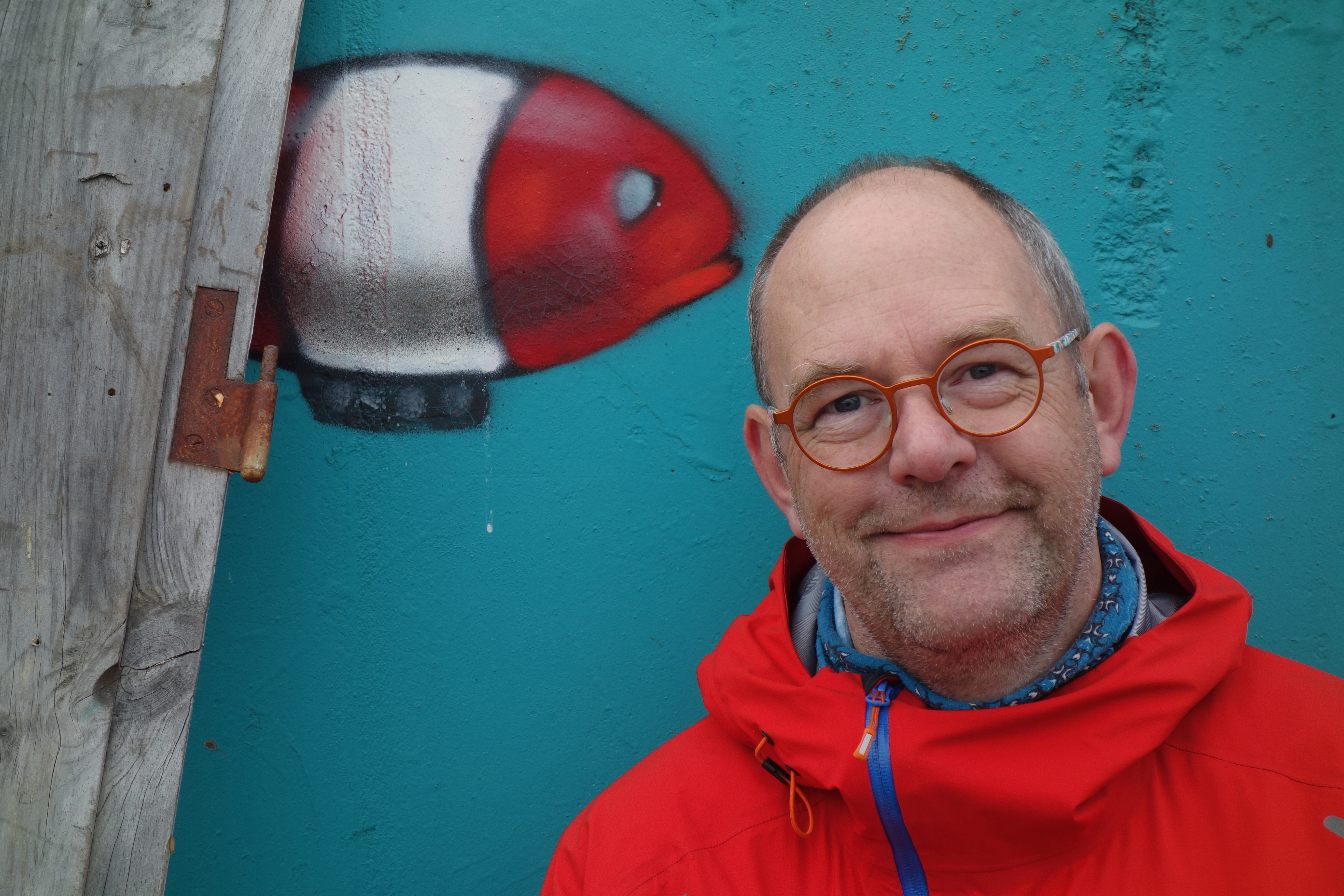 Thorsten Trelenberg (* 1963) is a German poet